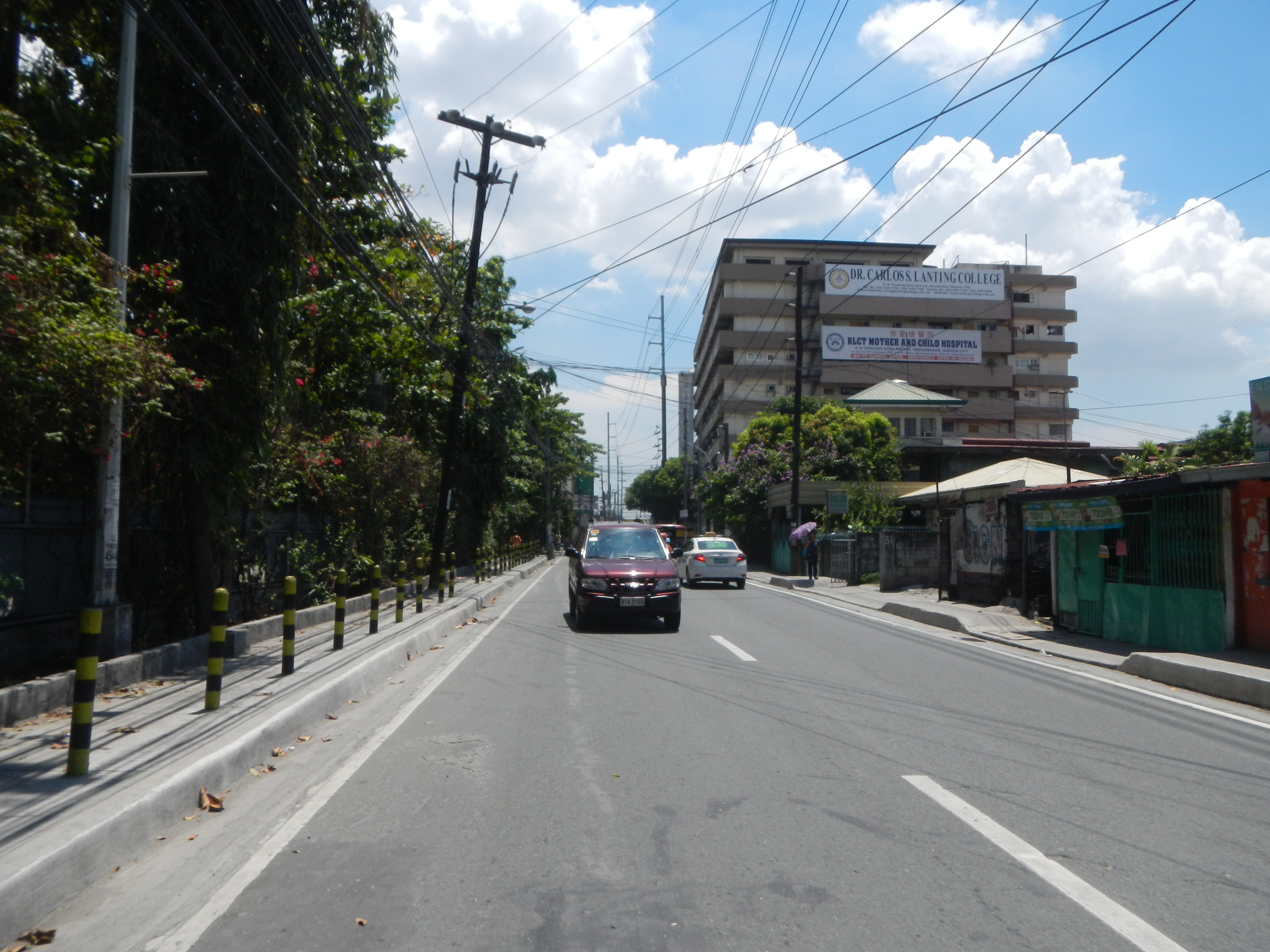 Tandang Sora Avenue from List of barangays of Metro Manila Legislative districts of Quezon City Districts 6, Barangays of Quezon City, Barangay Sangandaan, Project 8, District 6 beside Barangay Talipapa, Novaliches, District 6, Quezon City (along and from Quirino Highway, Quirino Highway (Talipapa, Sangandaan, Baesa and Balintawak, Quezon City section) Quezon City to NLEX Service Road, along and from Camachile Overpass (Quezon City) or Unang Sigaw Pedestrian overpass (Balintawak, Quezon City) of the North Luzon Expressway, Radial Road 8).